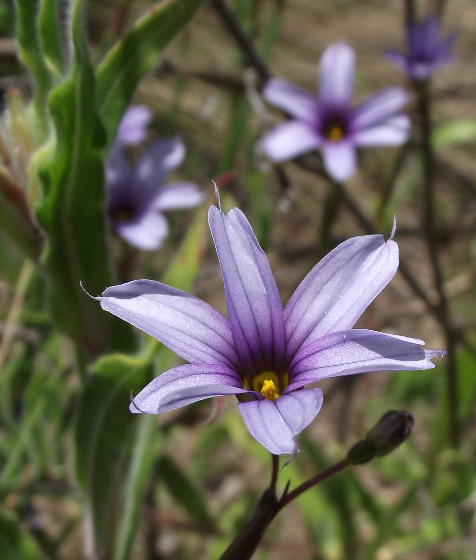 Sisyrinchium platense in the UC Botanical Garden, Berkeley, California, USA. Identified by sign.